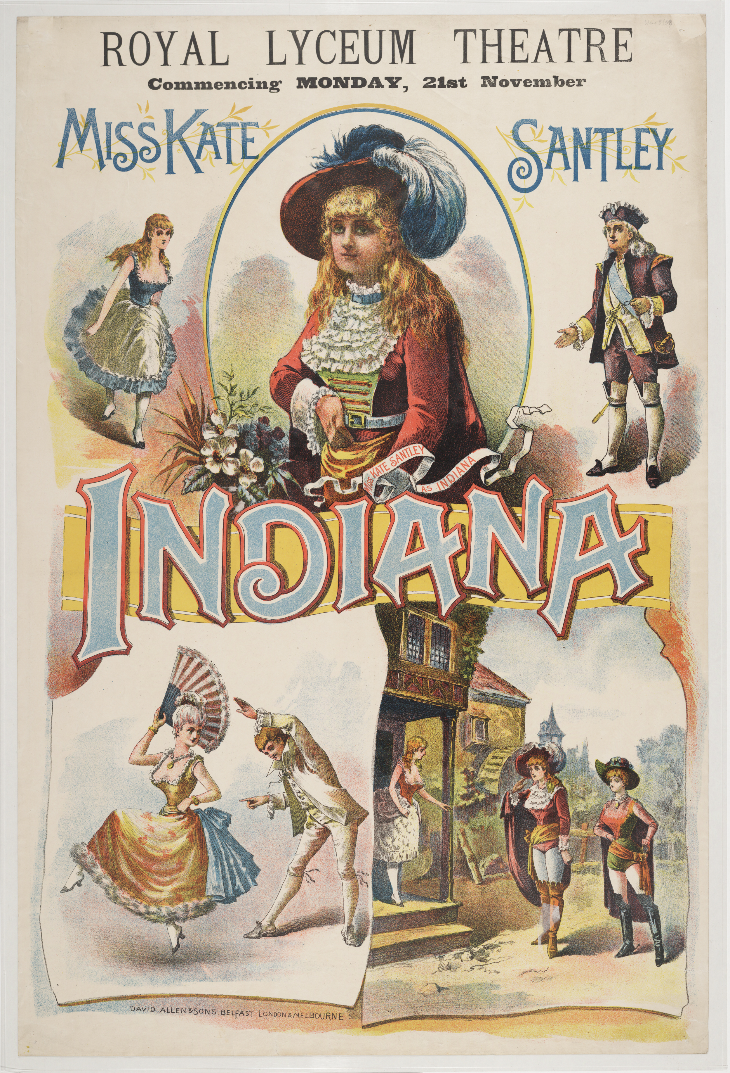 Commencing Monday, 21st November. Miss Kate Santley. 'Indiana'. Caption: 'Miss Kate Santley as Indiana'. Printed by David Allen & Sons, Belfast, London & Melbourne.